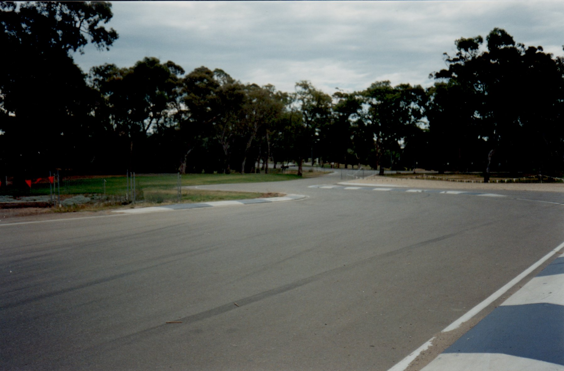 The view through Senna Chicane of the Adelaide Grand Prix Circuit from Pit Straight. The track infrastructure is not in place.